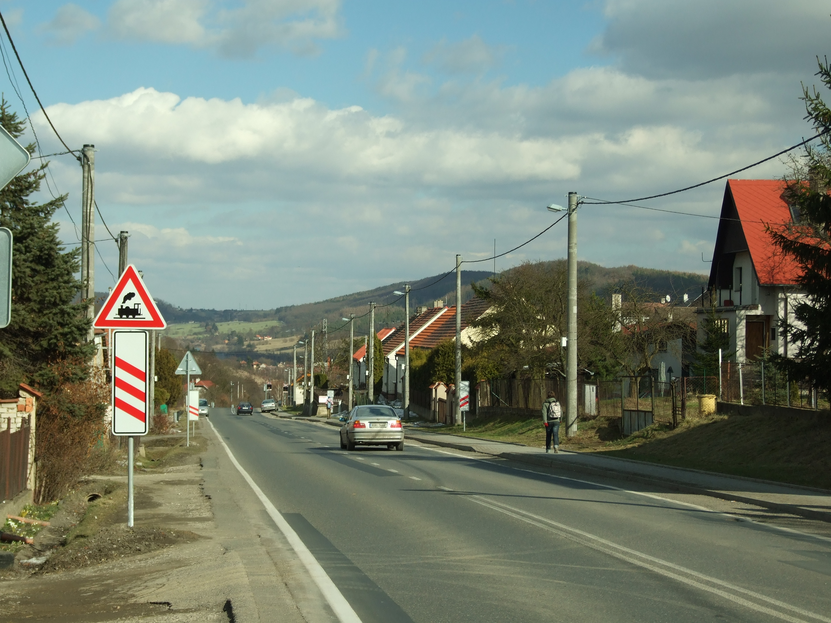 Old road Prague-Beroun-Pilsen in Vráž u Berouna village, Central Bohemian Region, CZ